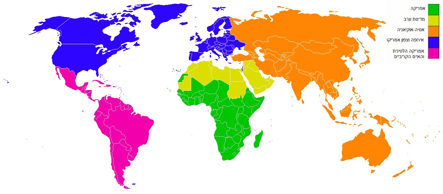 Map of UNESCO Regions in order to localize World Heritage Sites.